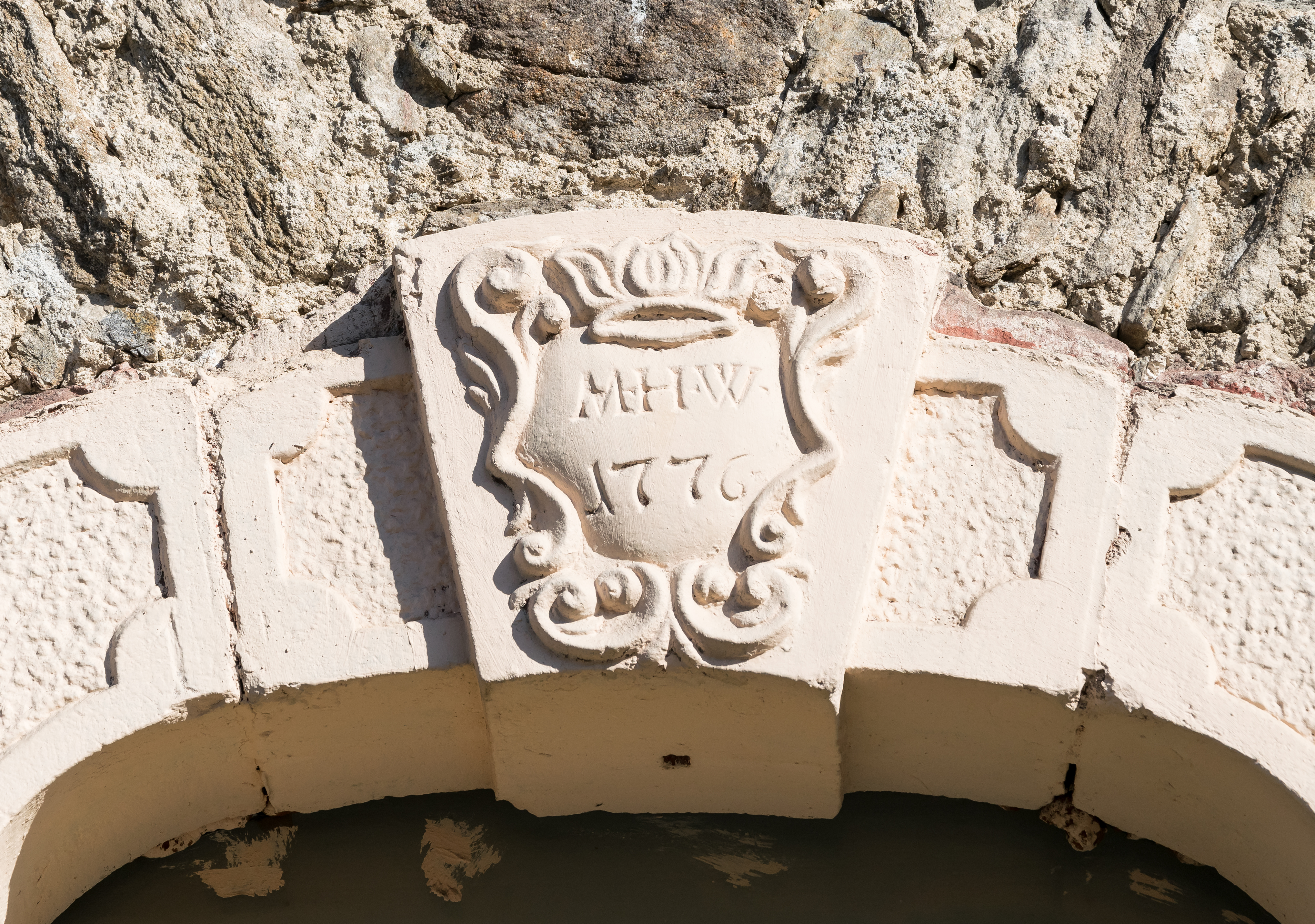 Pod Kukułką inn in Rzeczka